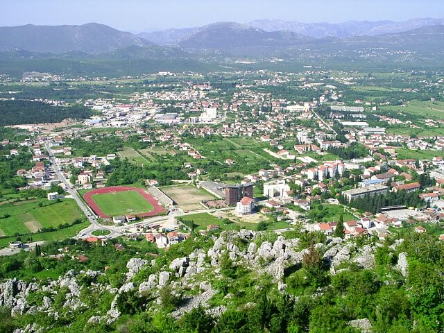 Town of Ljubuški, BiH